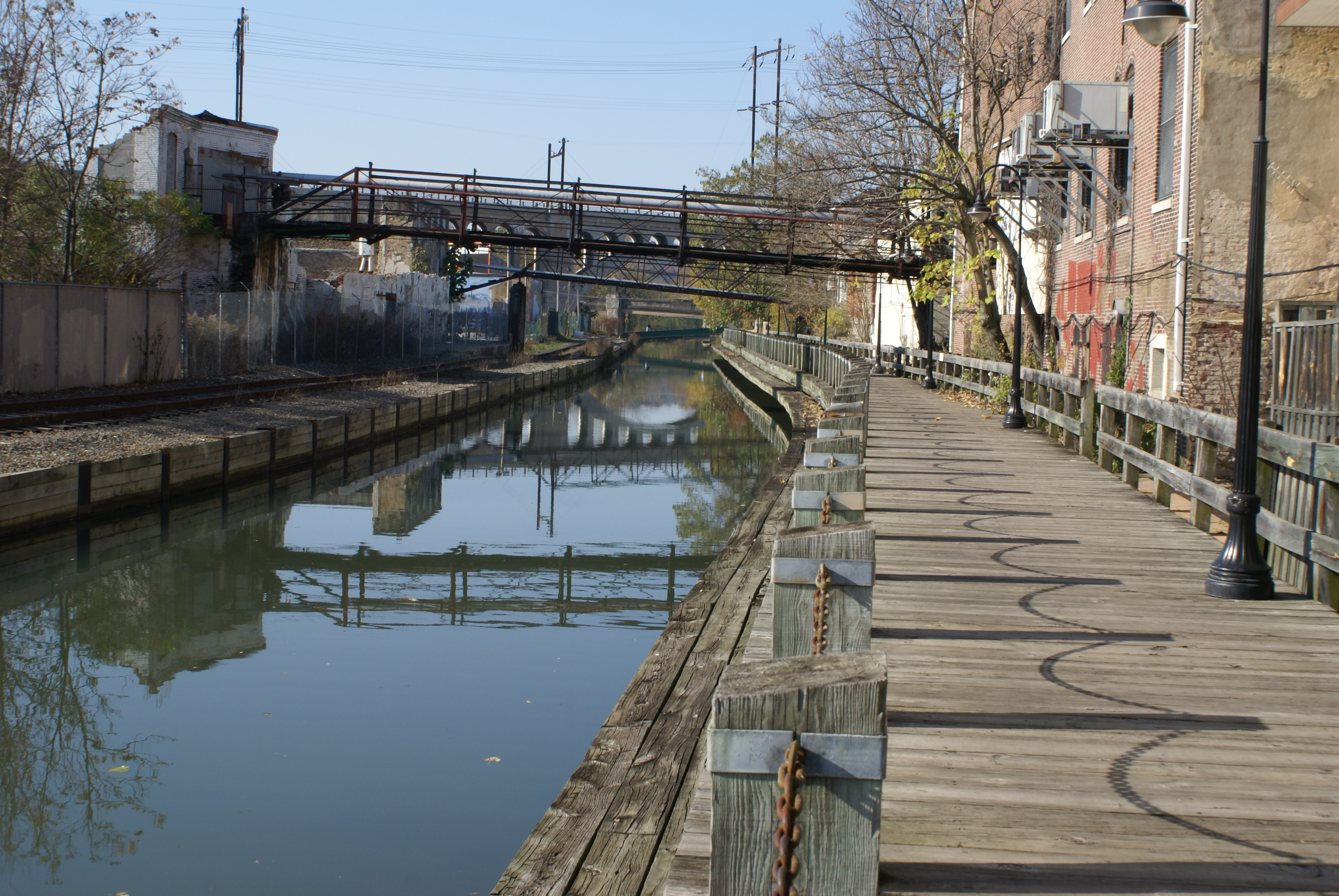 Manayunk Reach of Schuylkill Navigation, looking upstream from the towpath.